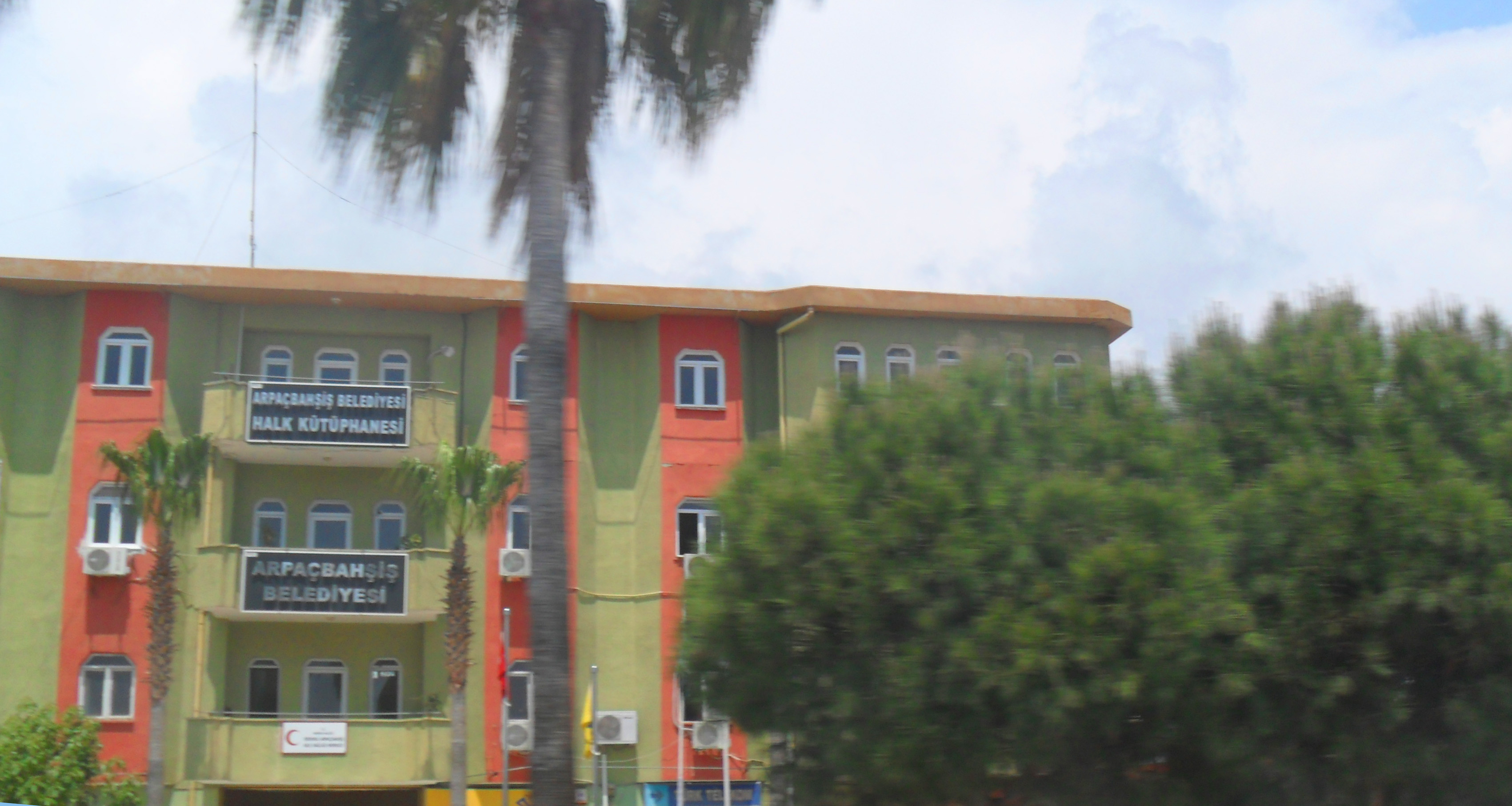 Arpaçbahşiş town hall in Mersin Province, Turkey